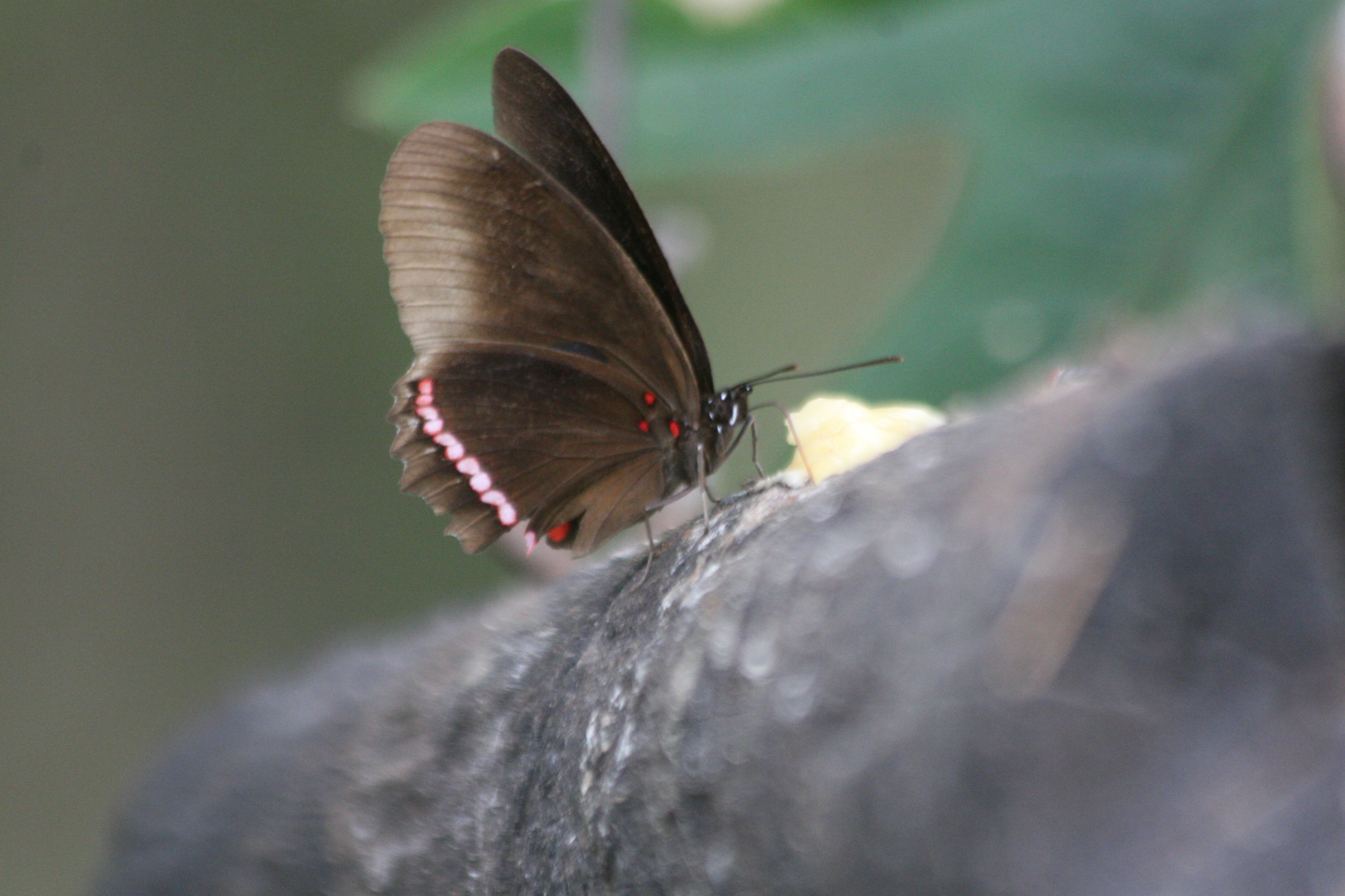 Red Rim (Biblis hyperia), Texas